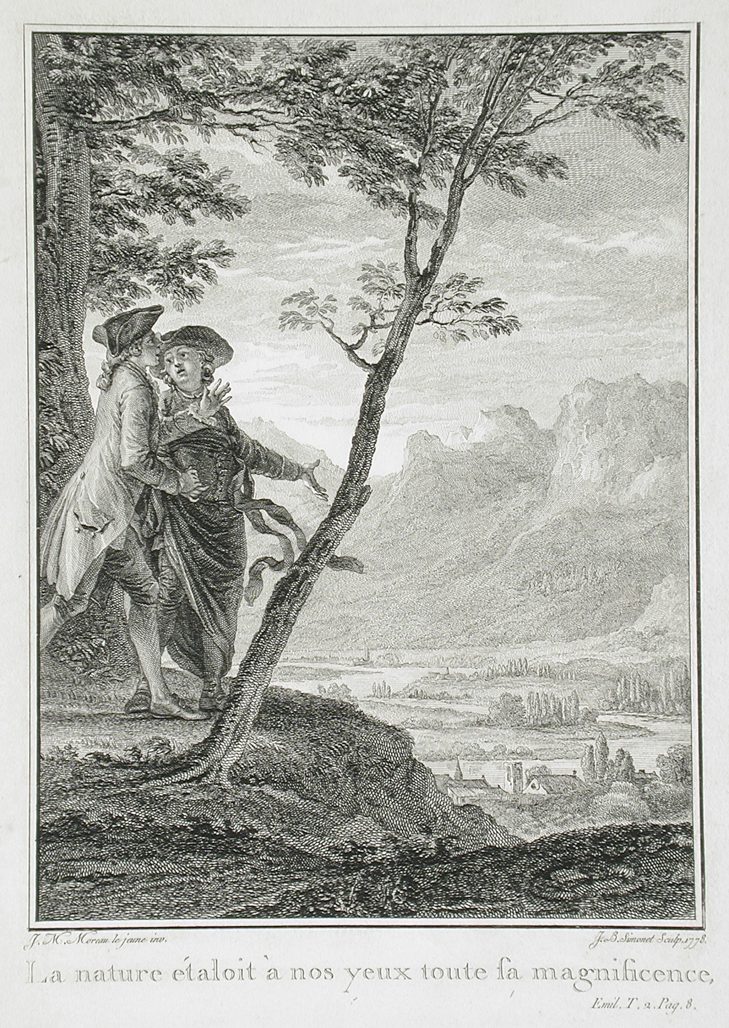 France, 1778 Book: Collection complète des oeuvres, vol. 4, pl. 8 Portfolio: Emile by Rousseau Prints; engravings Etching and engraving Gift of Mrs. Mary B. Regan (31.21.167) Prints and Drawings